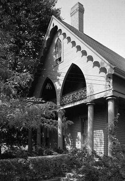 Sara Coburn House, 7 Dana Street, Cambridge (Middlesex County, Massachusetts) - cropped